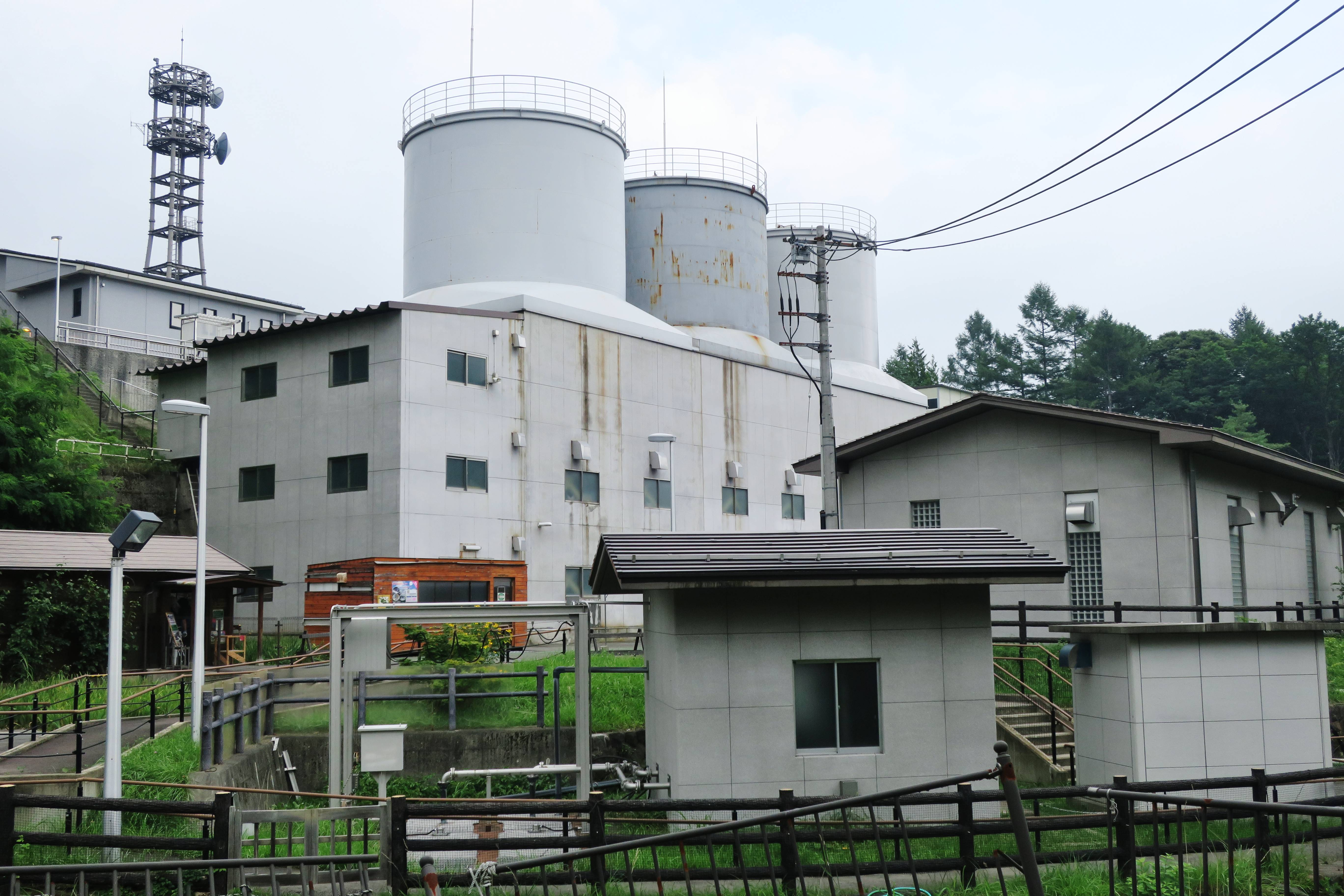 Kusatsu Onsen water treatment plant.